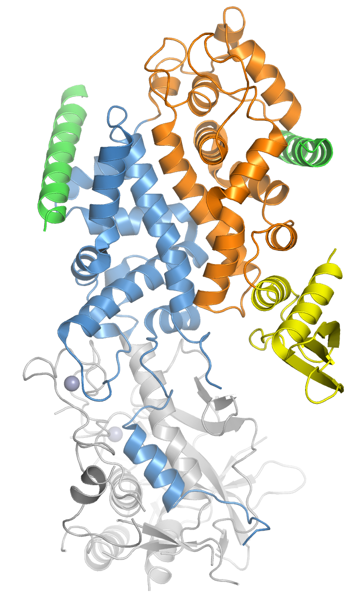 The crystal structure of the human Drosha ribonuclease enzyme in complex with two C-terminal helices of the DGCR8 protein. Drosha is shown with its two ribonuclease III domains in blue and orange, its double-stranded RNA binding domain in yellow, and the remainder of the protein, including two bound zinc ions (spheres) in gray. DGCR8 helices are shown in green. (Note: DGCR8 is also known as Pasha, or Partner of Drosha, in flies and worms.) Together, Drosha and DGCR8 form the Microprocessor complex, responsible for the processing of primary microRNA to pre-miRNA in the nucleus of almost all animal cells, the first step for producing endogenously derived miRNA involved in RNA interference. Rendered using PyMol from PDB ID 5A16.